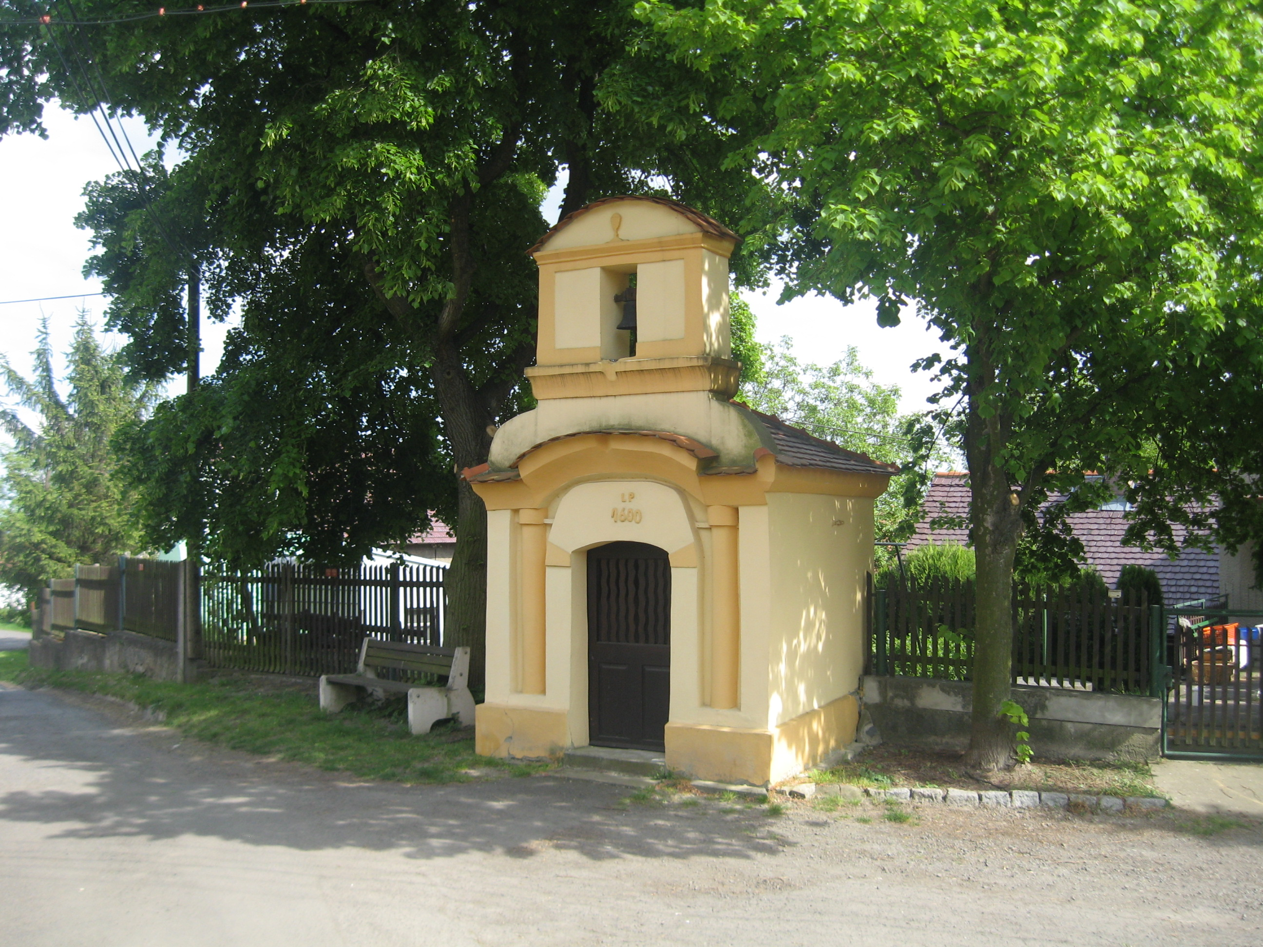 Small chapel in Dřemčice